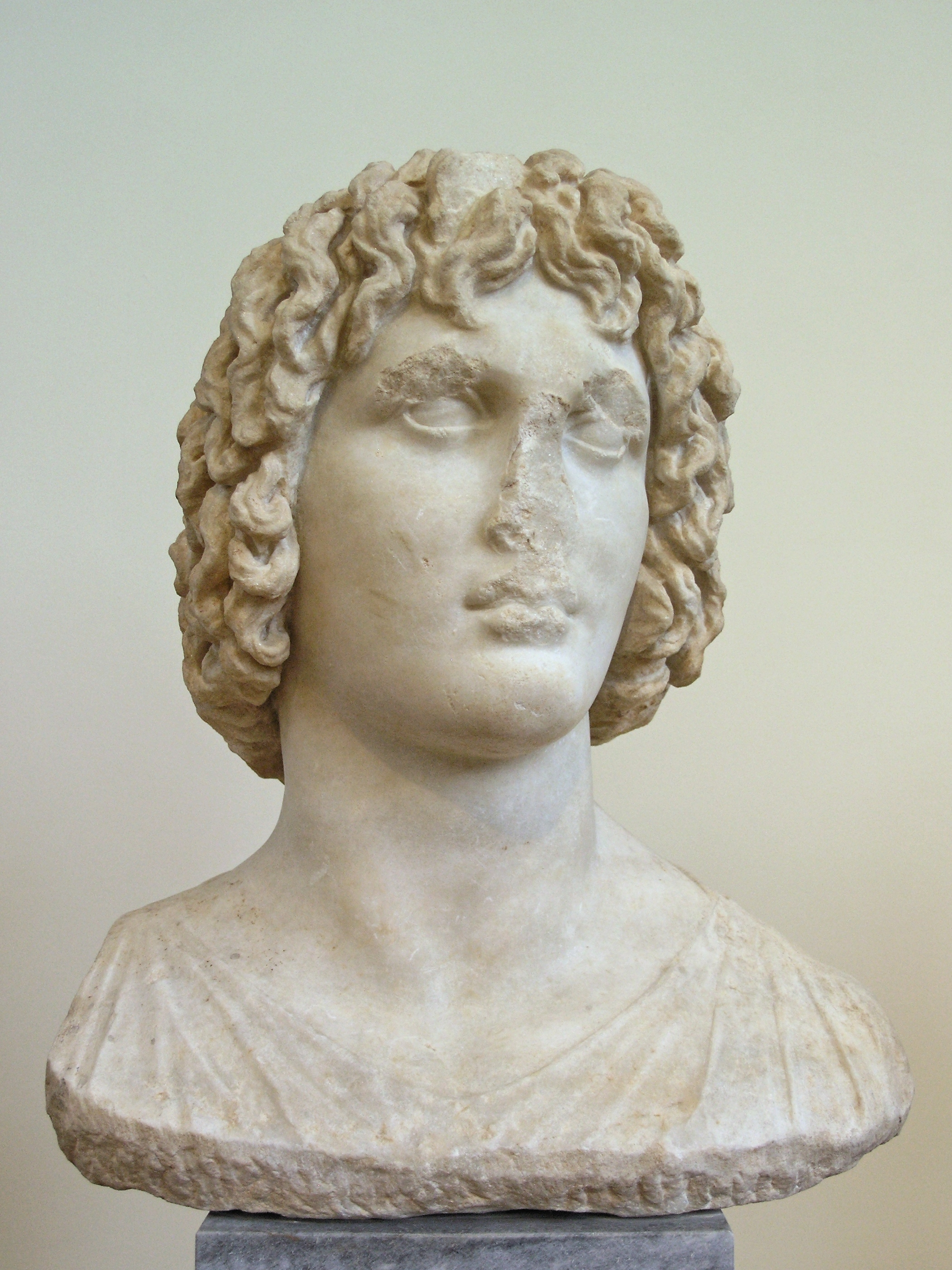 Bust of Eubouleus. Marble. Found at Eleusis. The bust depicts the mythical Eleusinian chthonic hero Eubouleus, brother of Triptolemos. Eubouleus is associated with the mystery cult at Eleusis. According to tradition, he was a swineherd. When Persephone was abducted by Plouton, he was grazing his herd near the point where the earth opened to receive the god's chariot and a few of his pigs fell into the chasm. This episode of the myths is related to the practice of throwing pigs into subterranean chasms during the festival of the Skirophoria. About 330-320 BC.